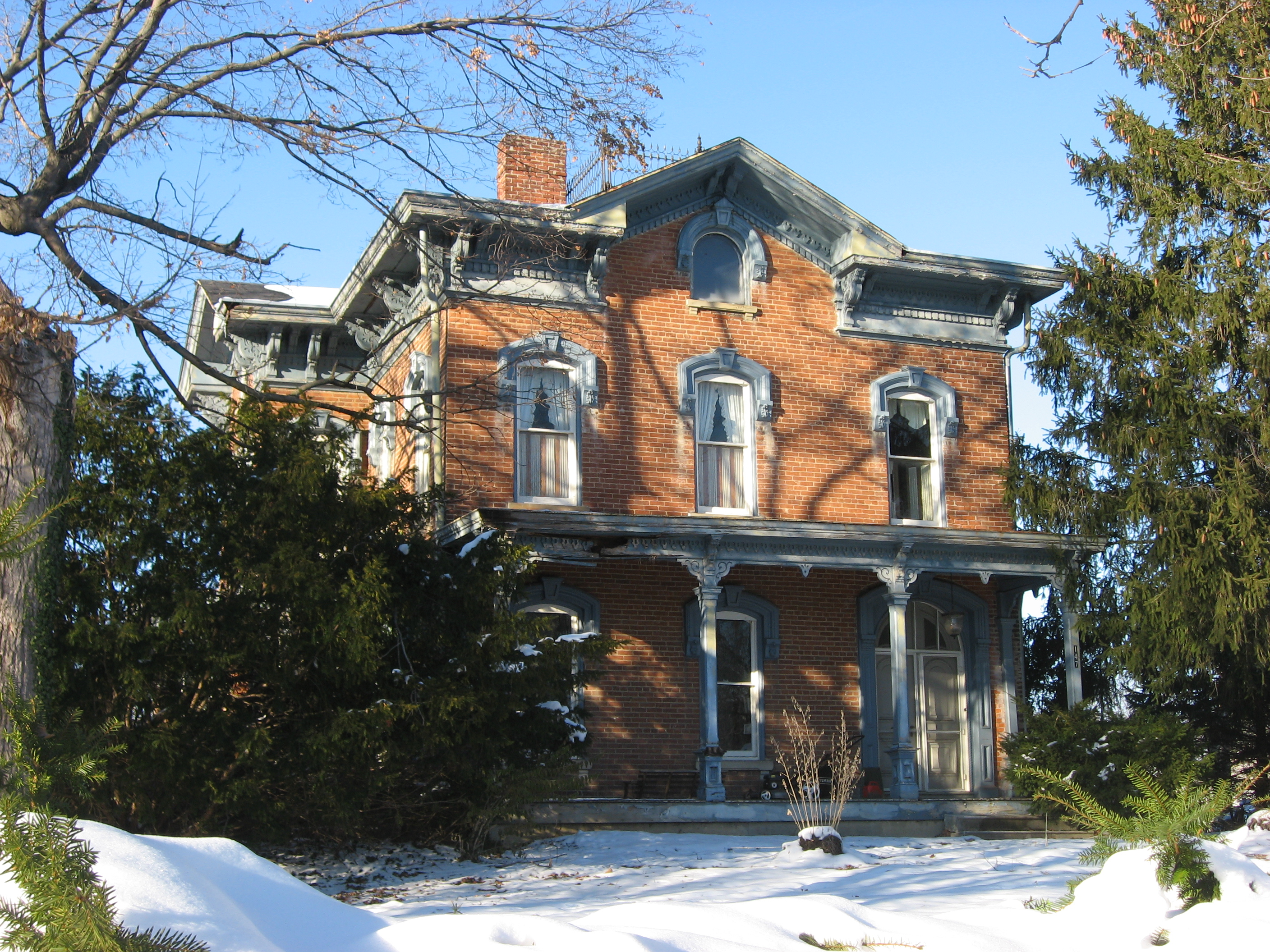 Front of the Swetland House, located at 147 E. High Street in London, Ohio, United States. Built in 1871, it is listed on the National Register of Historic Places.